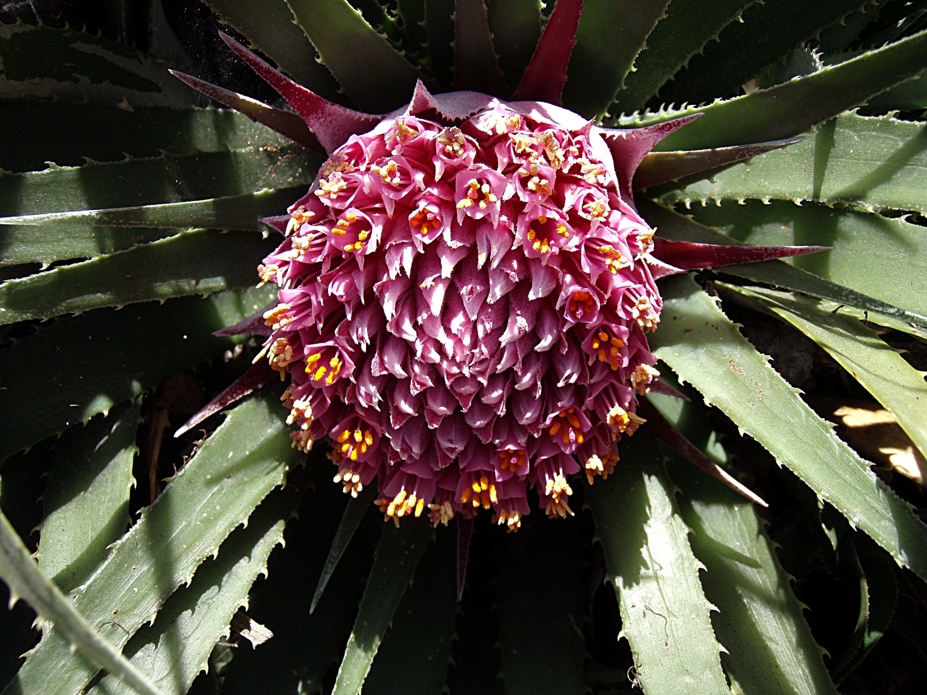 Bromeliad Ochagavia Carnea in blum